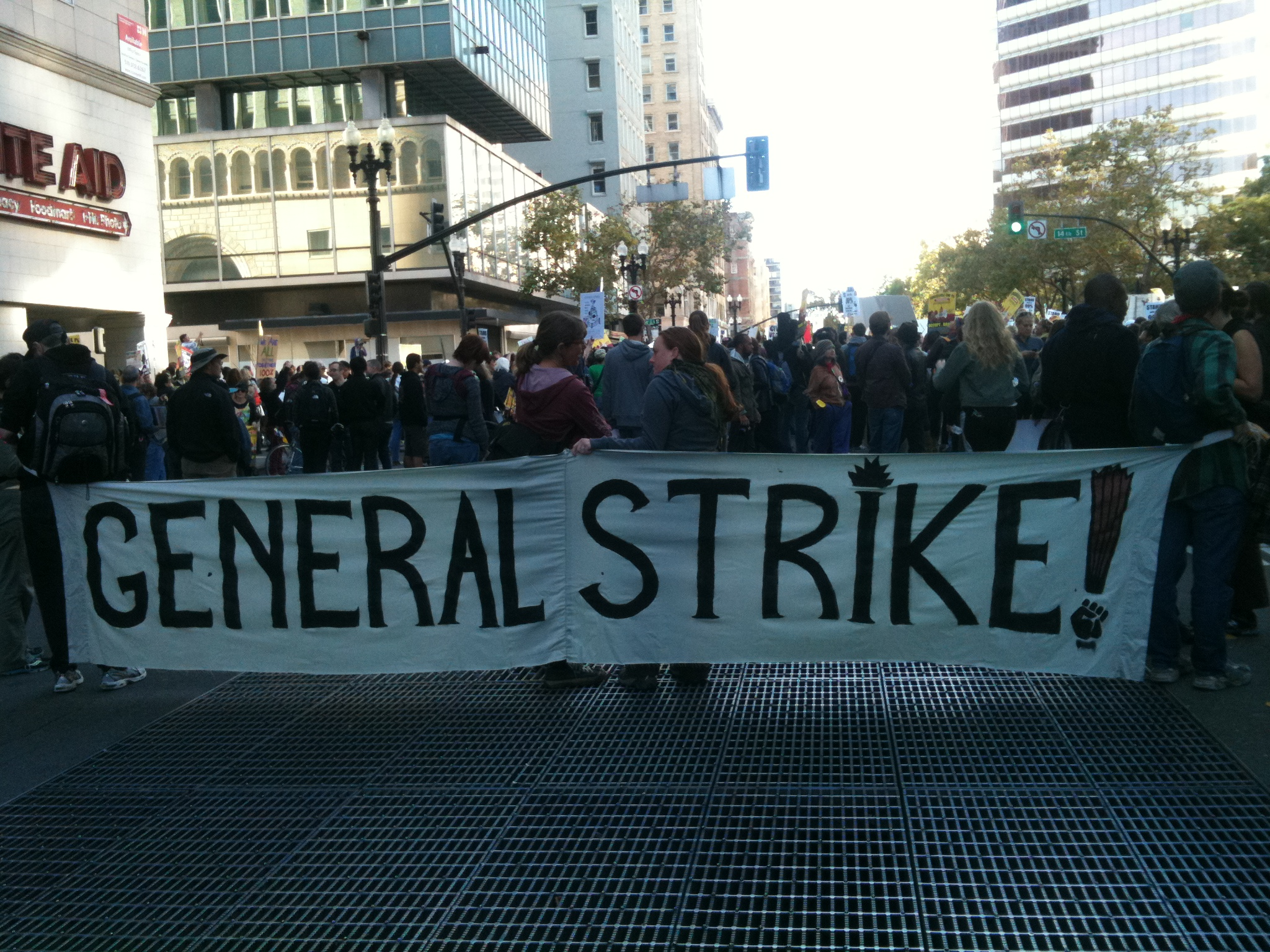 near the intersection of 14th and Broadway